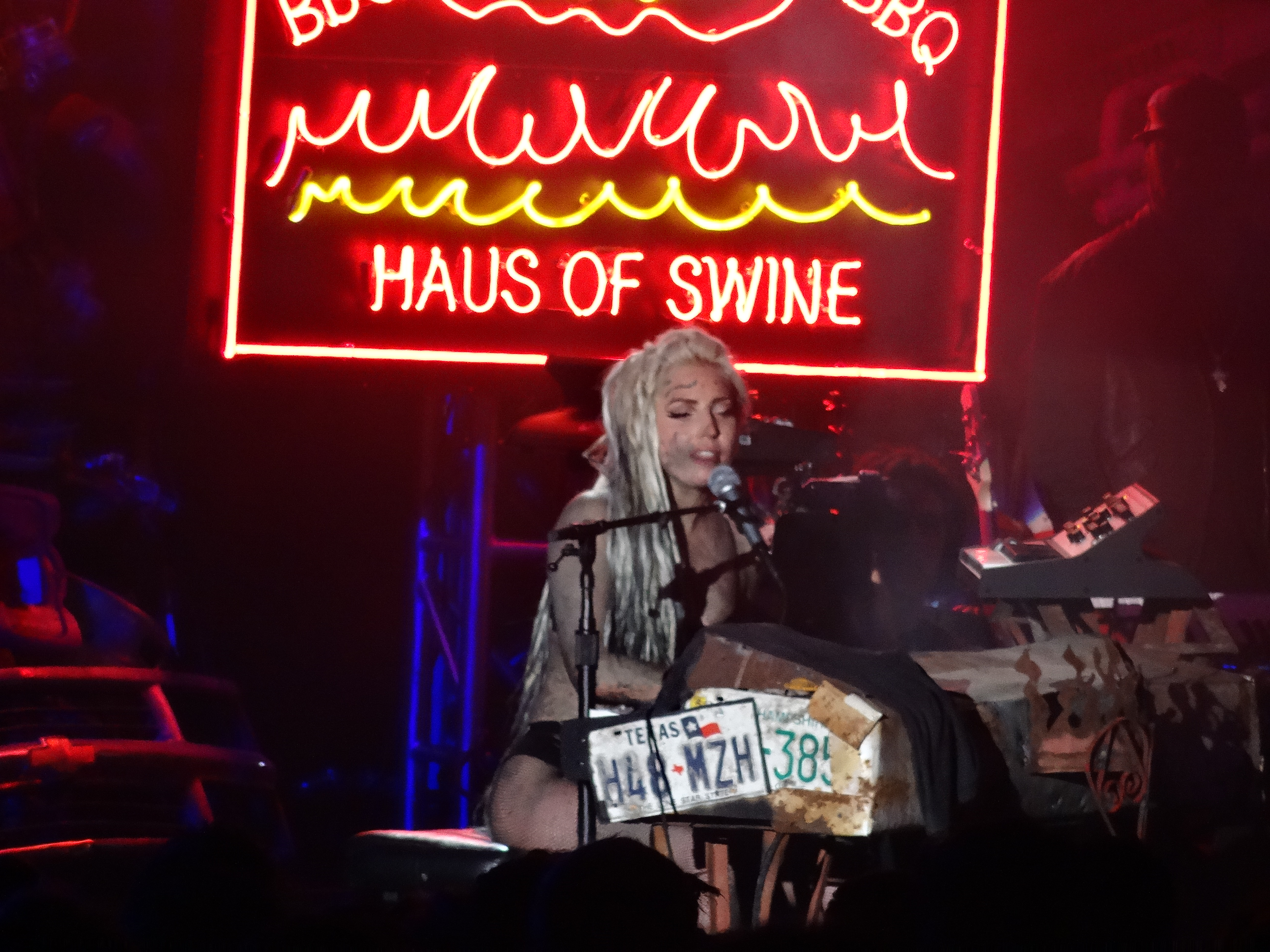 Lady Gaga singing "Dope" at South by Southwest, 2014